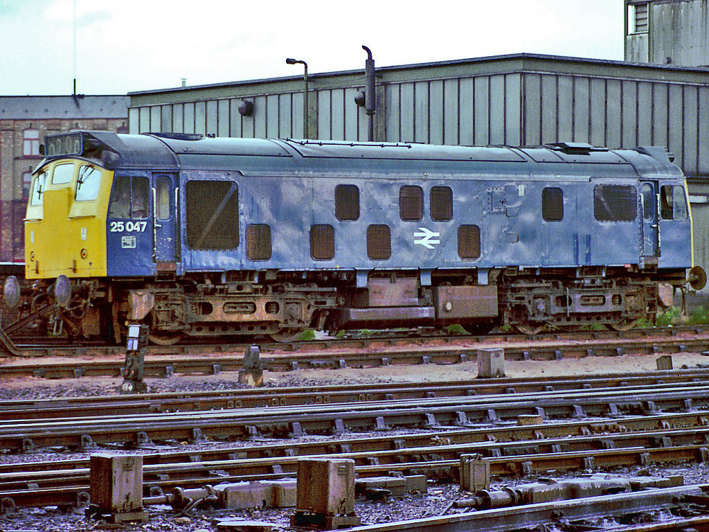 British Railways Type 2 Bo-Bo class 25/1 diesel-electric locomotive number 25047 of Springs Branch TMD stands on Number 9 Siding outside Manchester Victoria East Junction signal box. Sunday 22nd June 1980